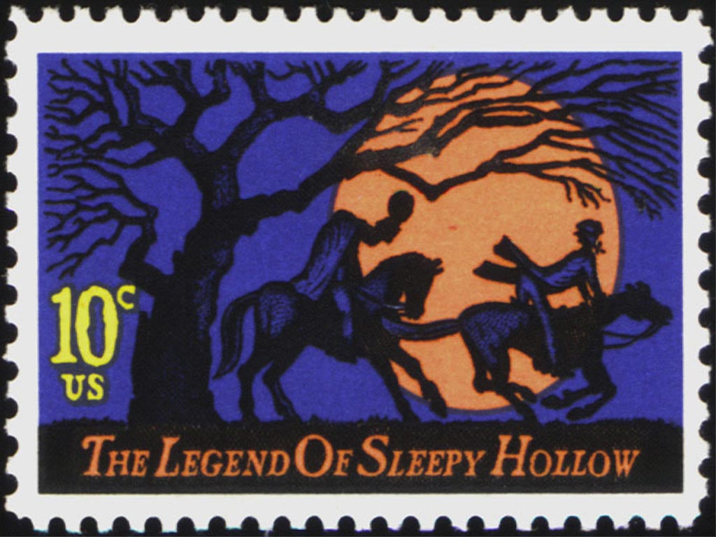 U.S. postage stamp of Legend of Sleepy Hollow - 157,270,000 issued October 12, 1974 - North Tarrytown, New York - commemorative 1974 10¢ Legend of Sleepy Hollow stamp - Designer: Leonard Everett Fisher